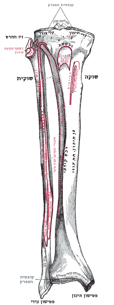 Bones of the right leg. Anterior surface.